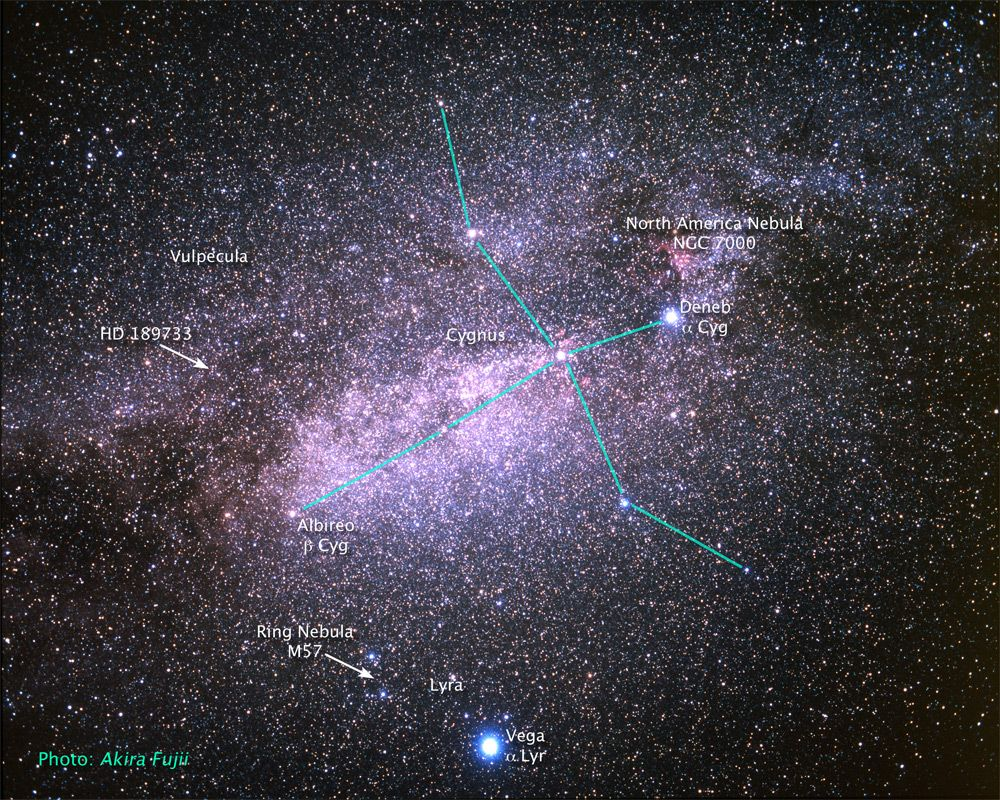 HD 189733 is located in Constellation Vulpecula--near Cygnus.